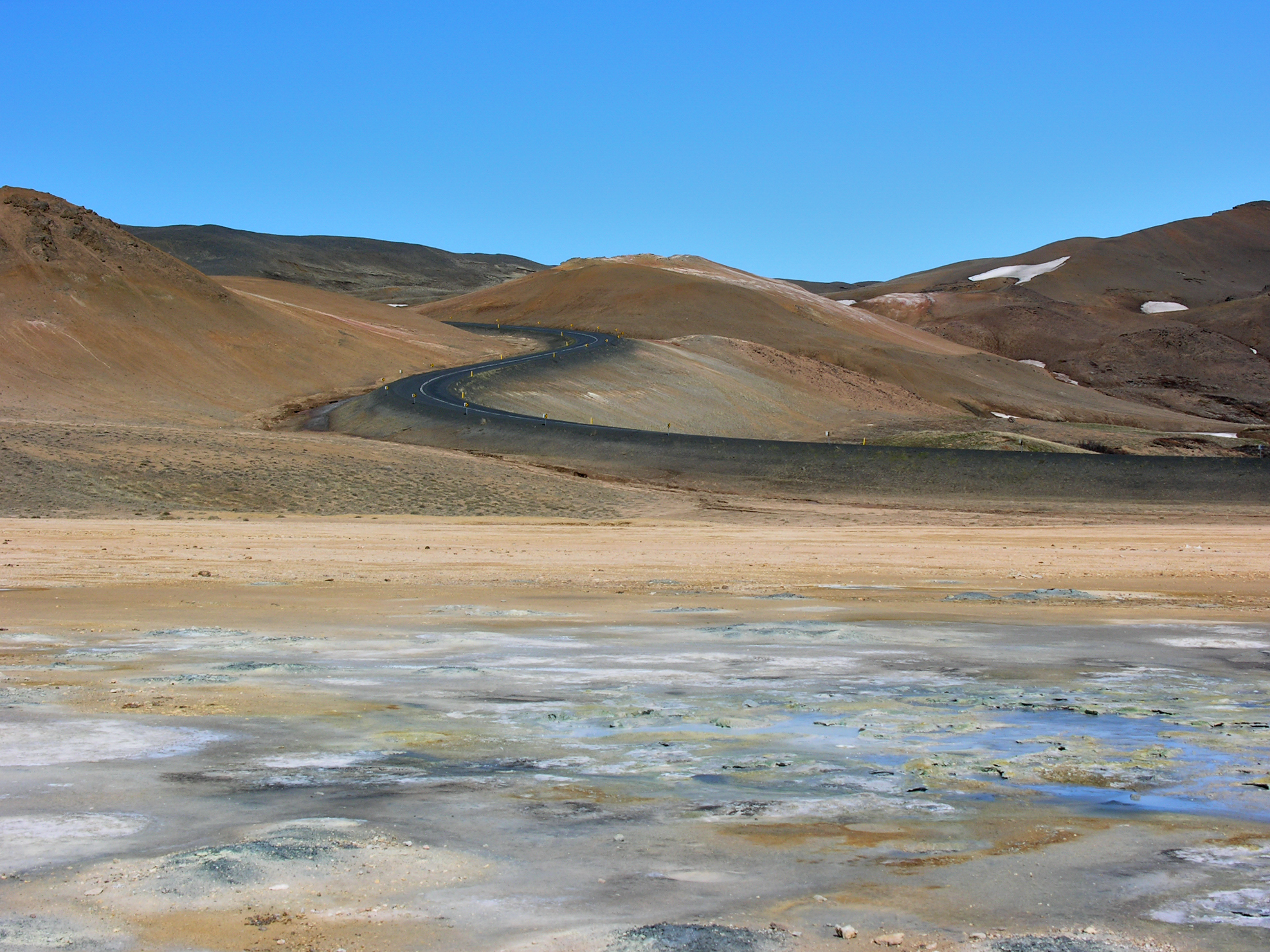 Iceland, hiking in the Námafjall geothermal area